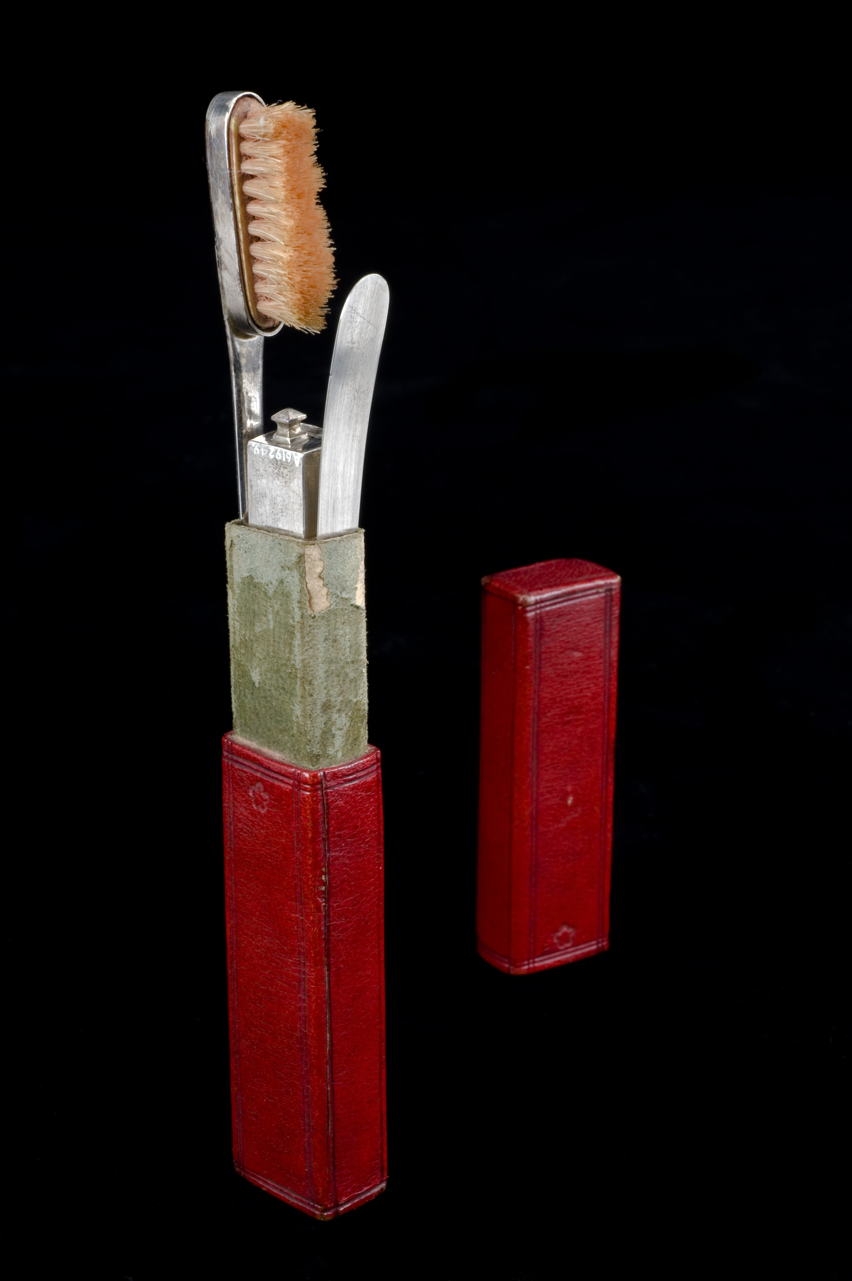 Used while travelling, this set contains a toothbrush, tongue scraper and toothpowder pot all made from silver. The bristled toothbrush became the most popular way to clean teeth from around 1800 onwards. Tongue scrapers were used to remove the ‘furry’ deposits on the tongue that could develop after eating and drinking. Toothpowder was rubbed into the teeth and gums to clean them. A number of different recipes were created. Many included cloves, cinnamon, honey and even finely ground cuttle-fish bones. Sets like this were known as ‘morocco cased’ and the items were made by Samuel Pemberton, a silversmith located in Birmingham. maker: Pemberton, Samuel Place made: Birmingham, Borough of Birmingham, West Midlands, England, United Kingdom Wellcome Images Keywords: tongue scraper; tooth powder; toothbrush set; Hygiene; Dentistry